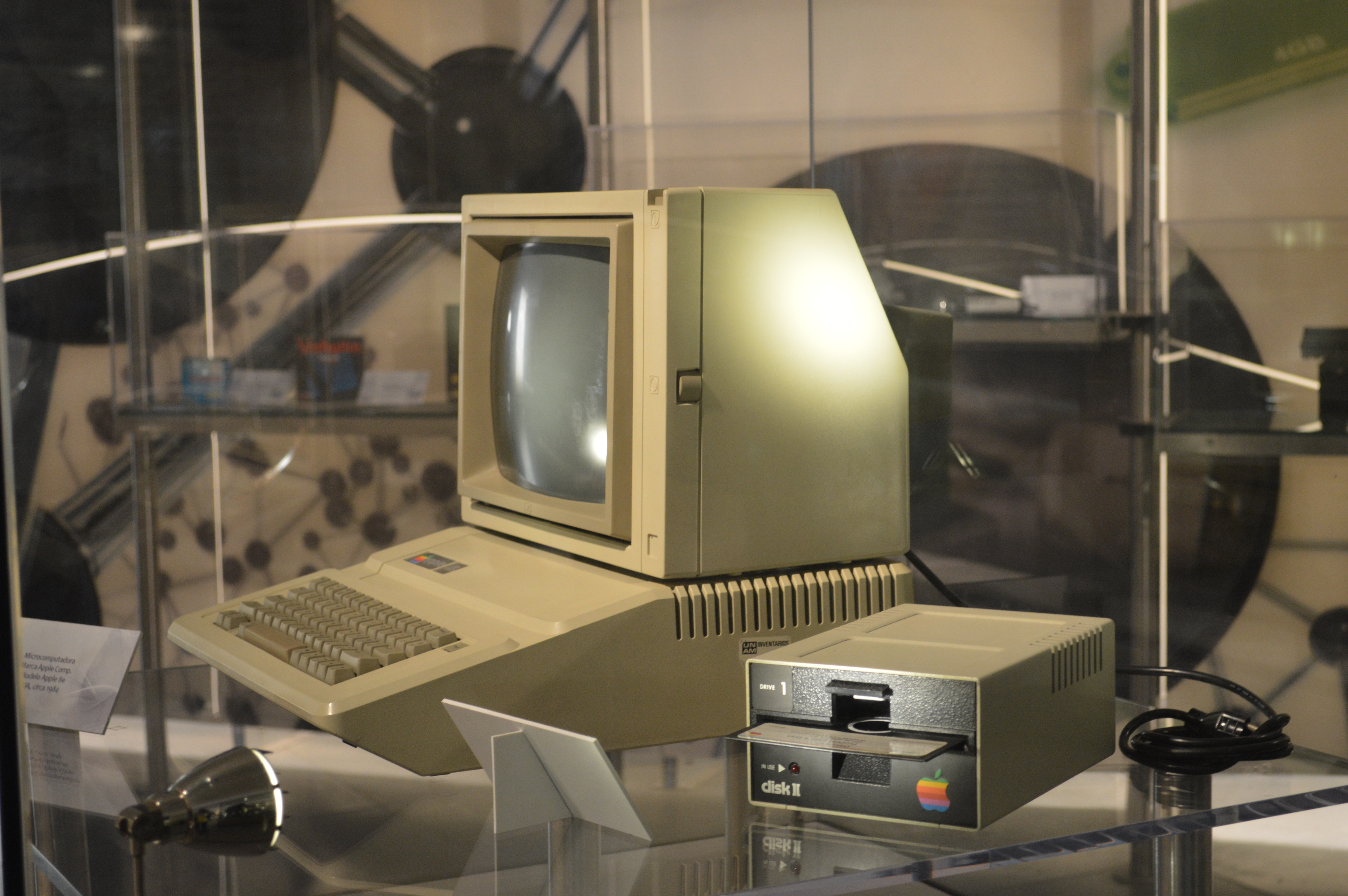 Apple IIe 1984 at Universum in Ciudad Universitaria in Mexico City